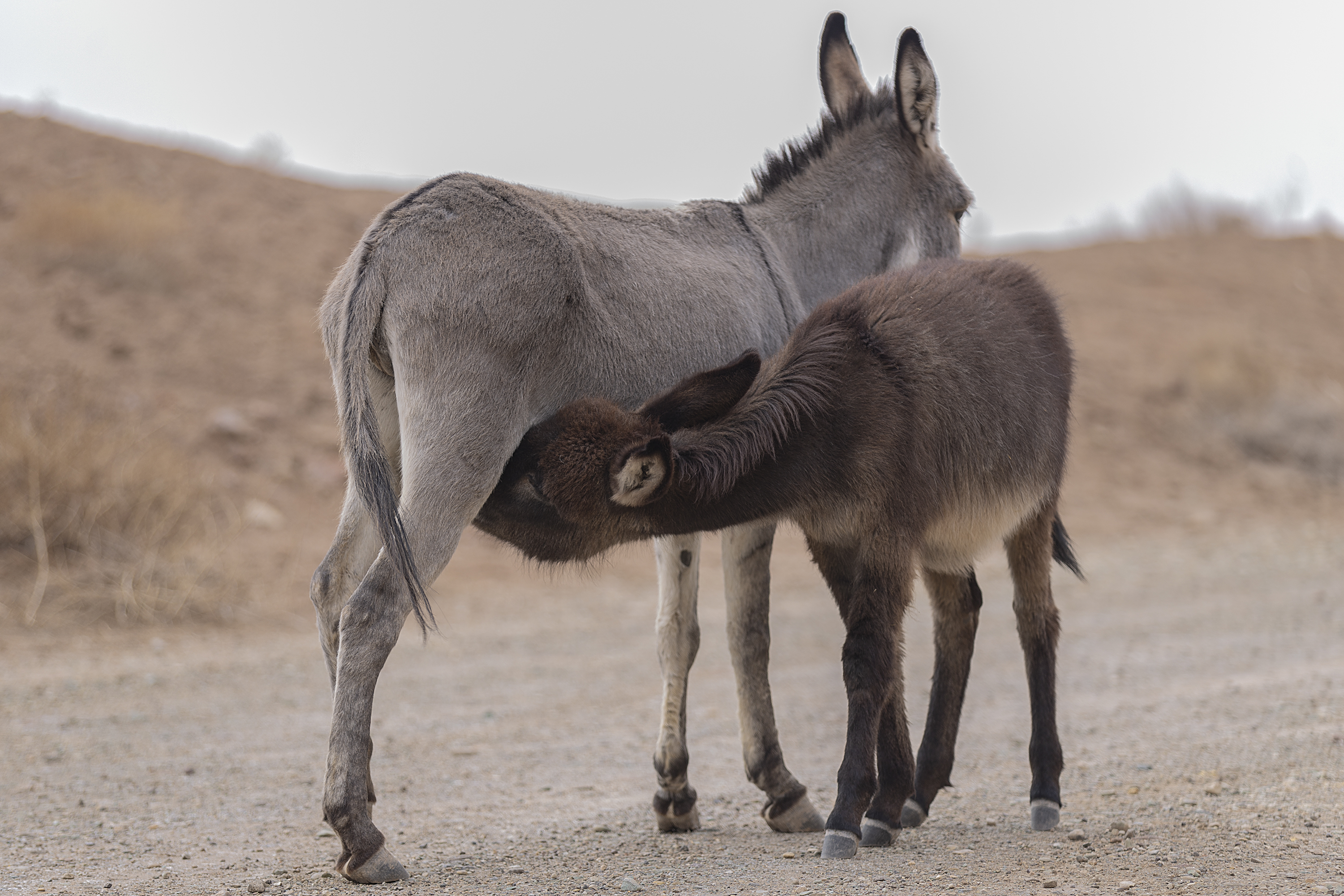 Donkey milk is the milk from the domesticated donkey. It has been used since antiquity for cosmetic purposes as well as infant nutrition.